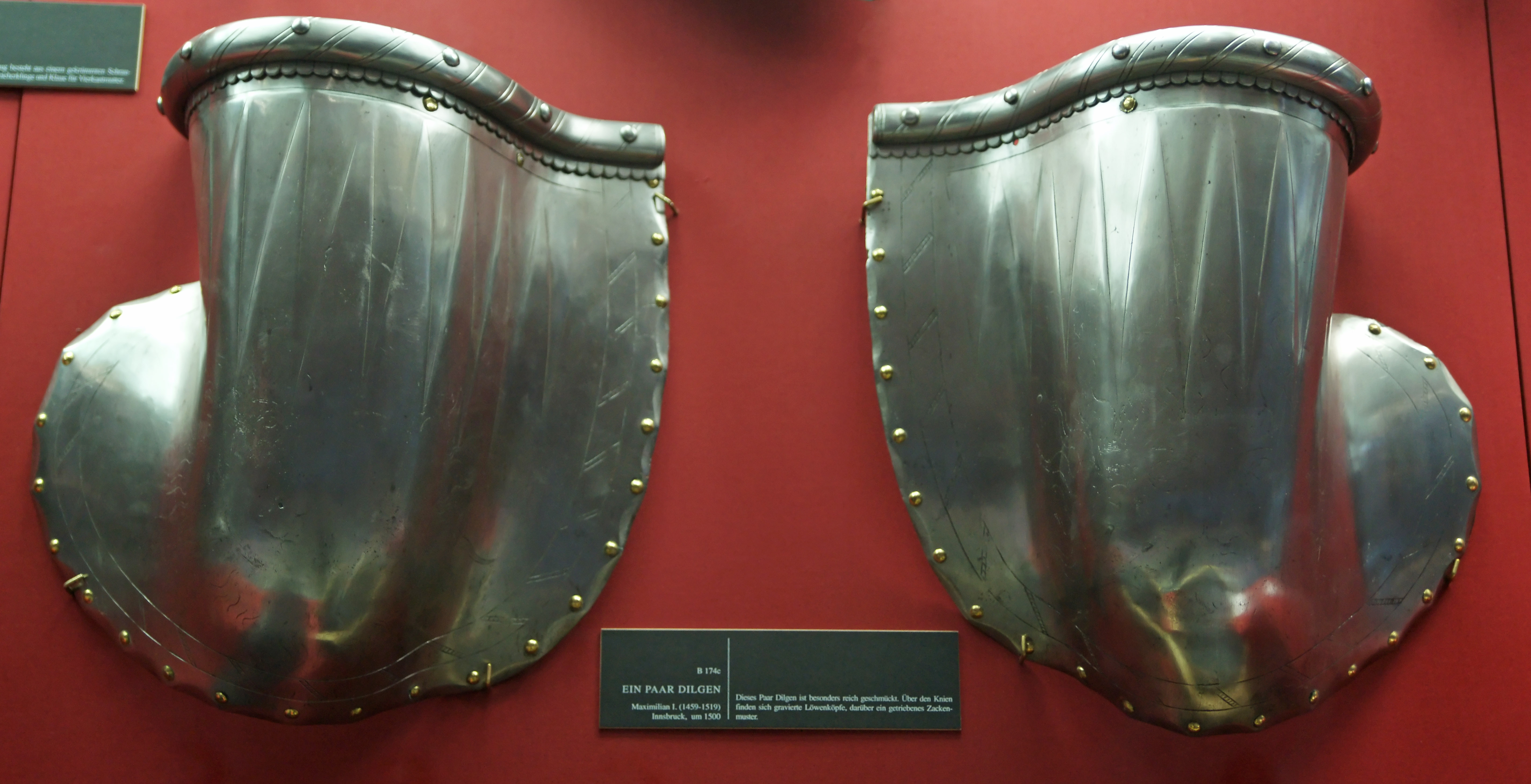 Thigh shields (Dilgen) of Emperor Maximilian I.